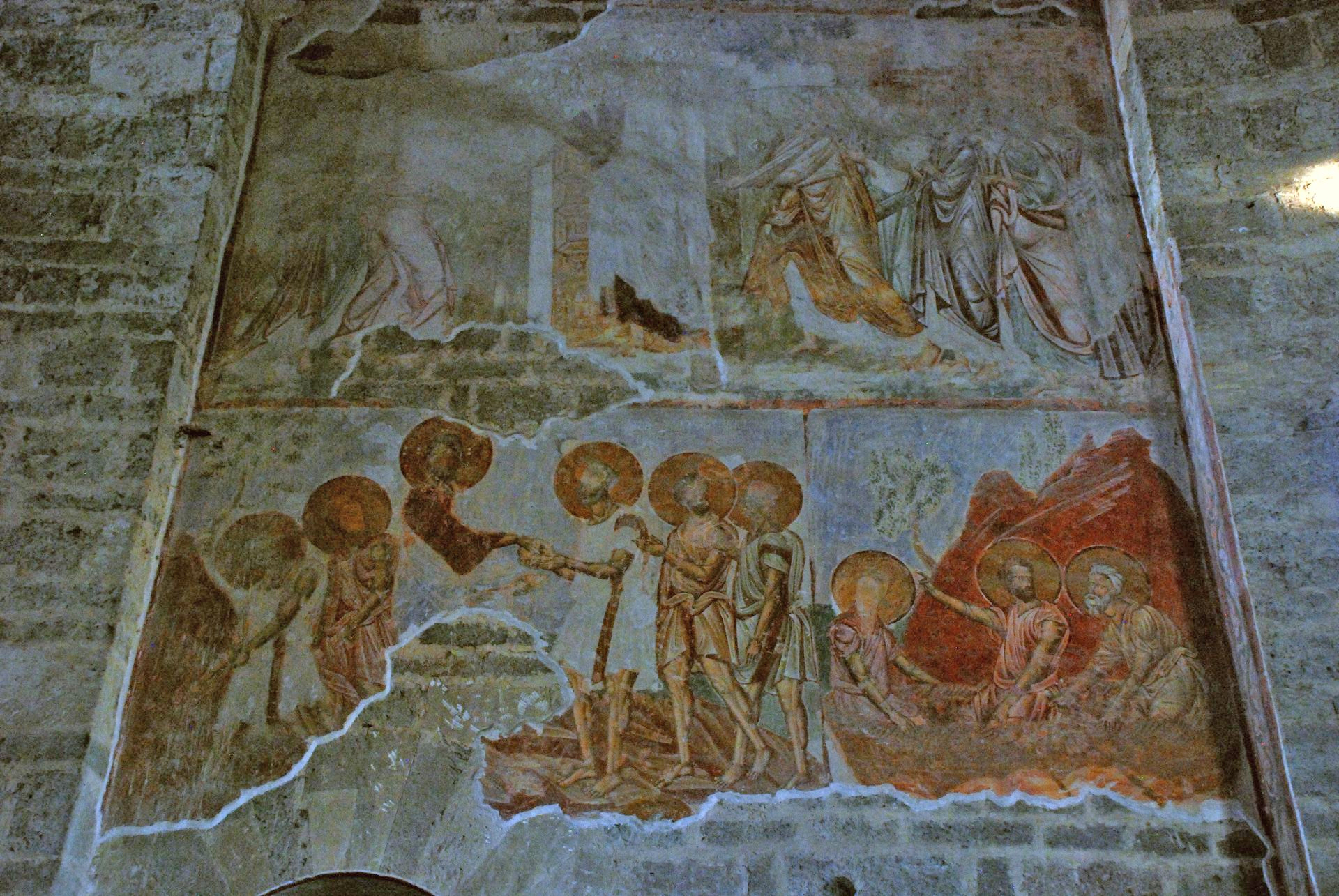 Trabzon, Hagia Sophia, above: The incredulity of Thomas, below: Miraculous draught of fish